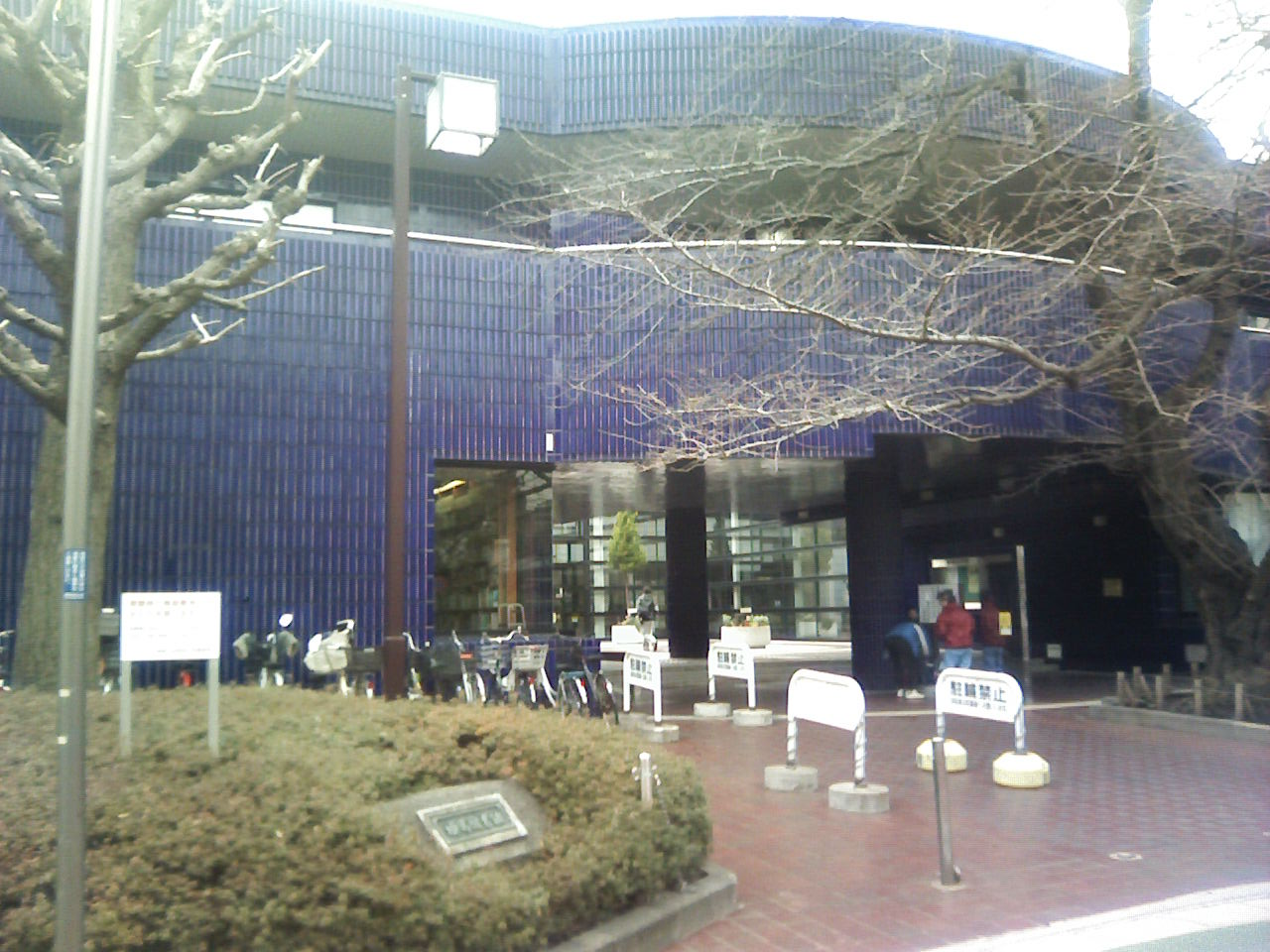 Nerima Library